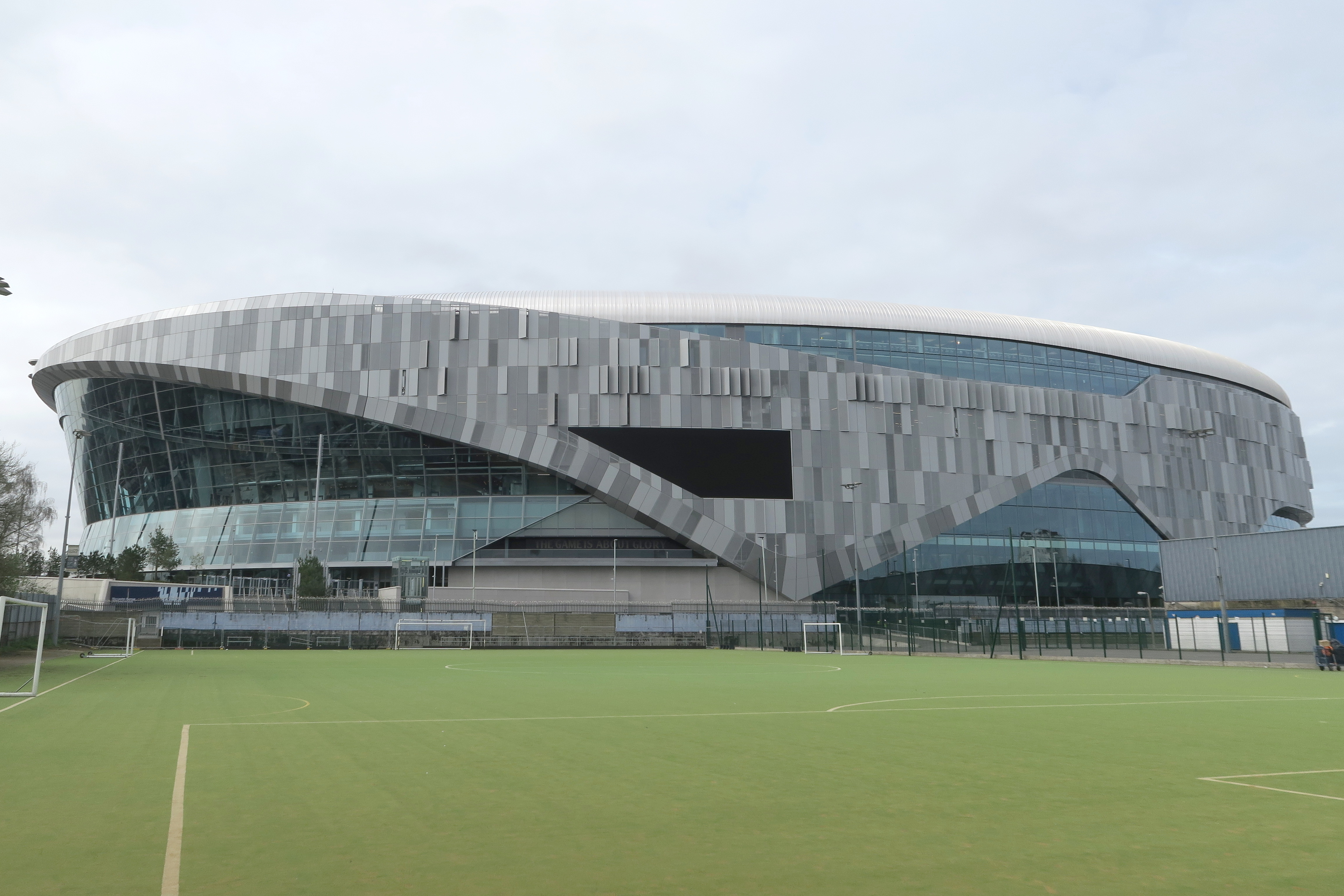 Tottenham Hotspur Stadium in March 2019, view from east.